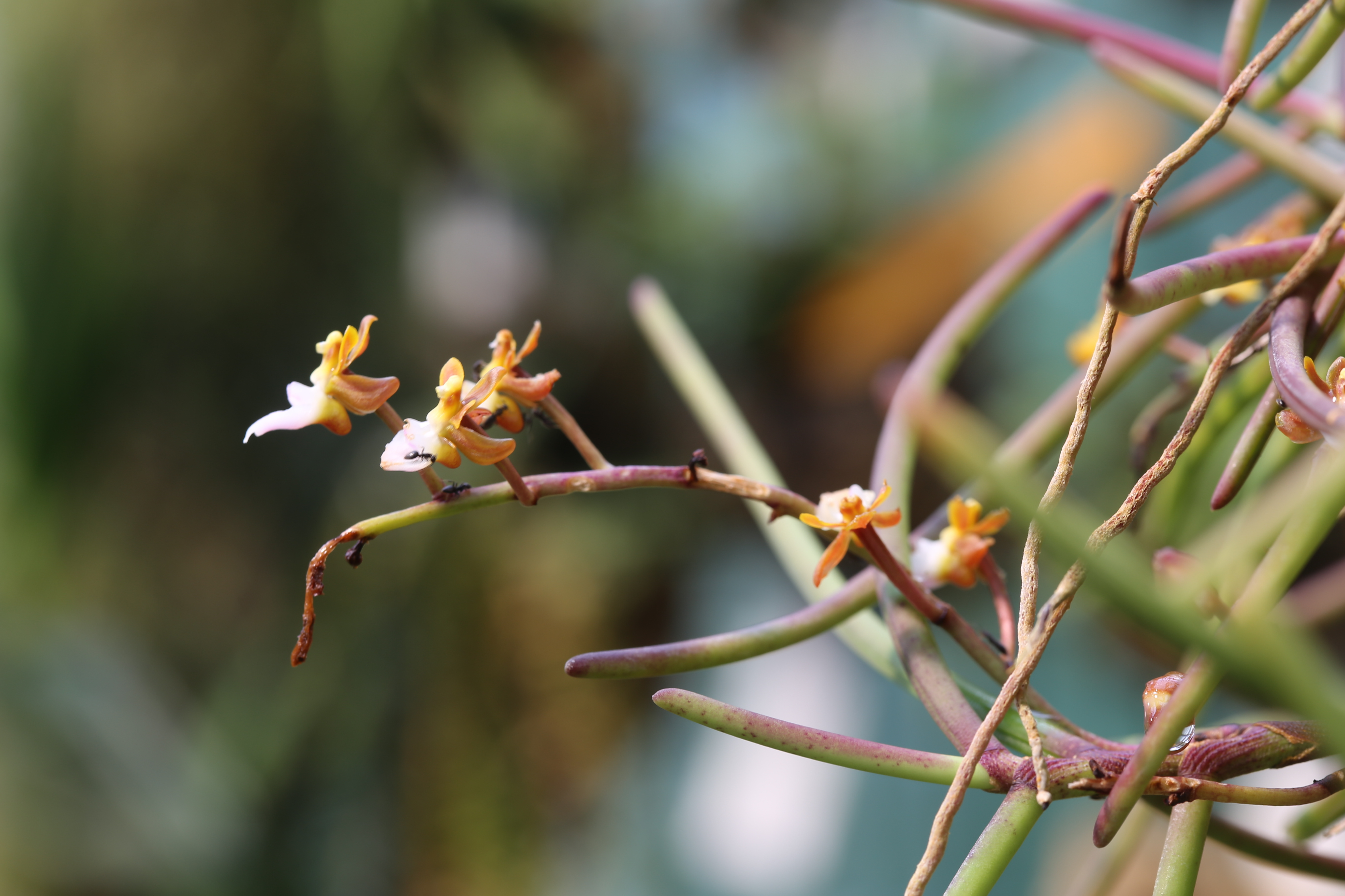 Cleisostoma teretifolium (tagged as simondii) at Gothenburg Botanical Garden in 2015. Plant id: 1981-V0183 p G -- Sv Orch. S